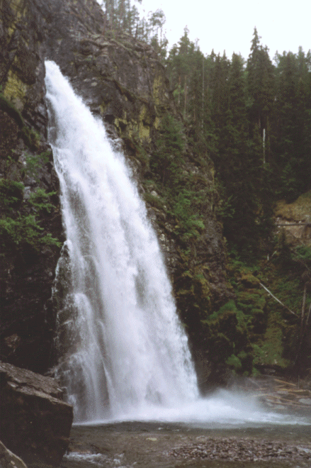 The water fall Tegningfallet in the river Tegninga